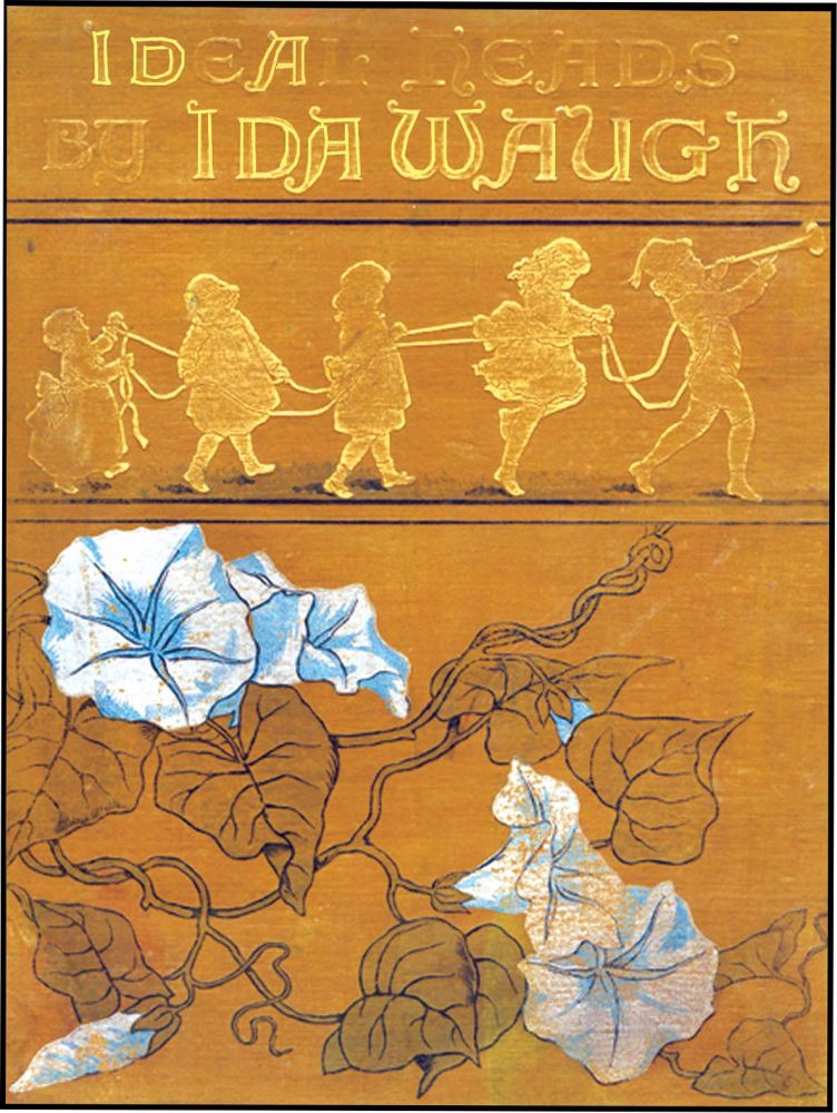 Ideal Head by Ida Waugh